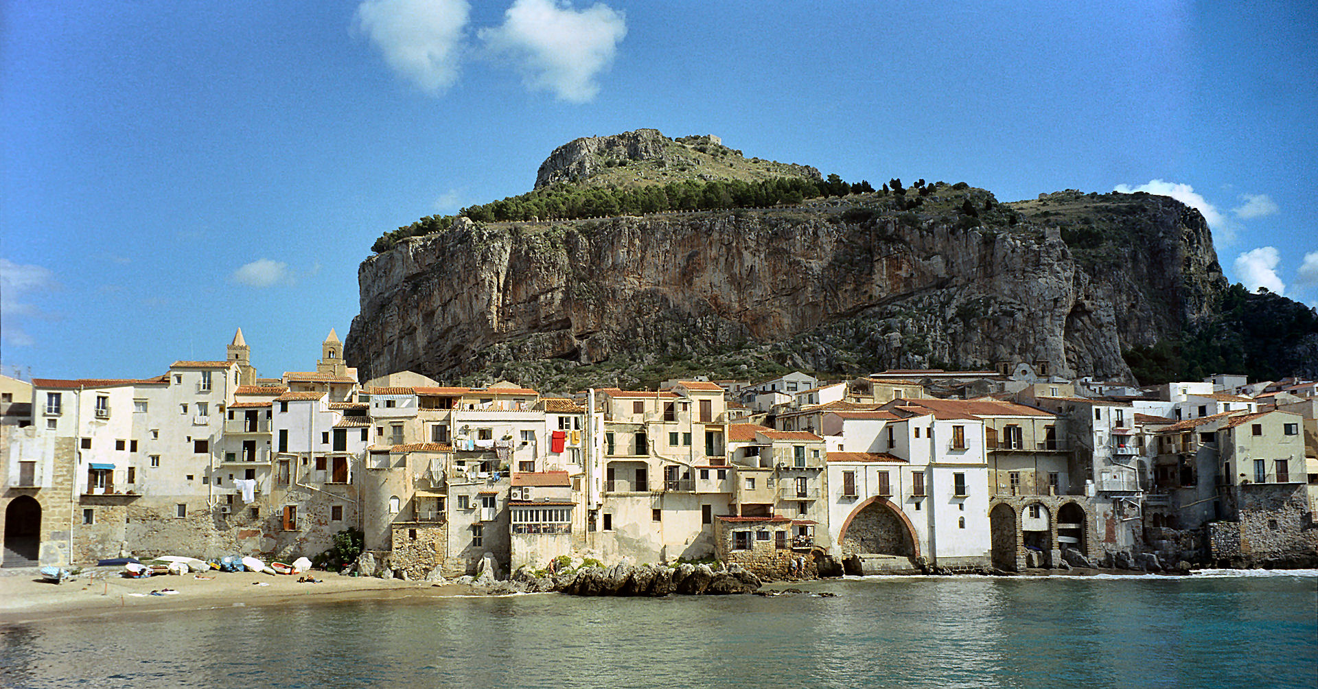 Cefalù - harbour, Sicily